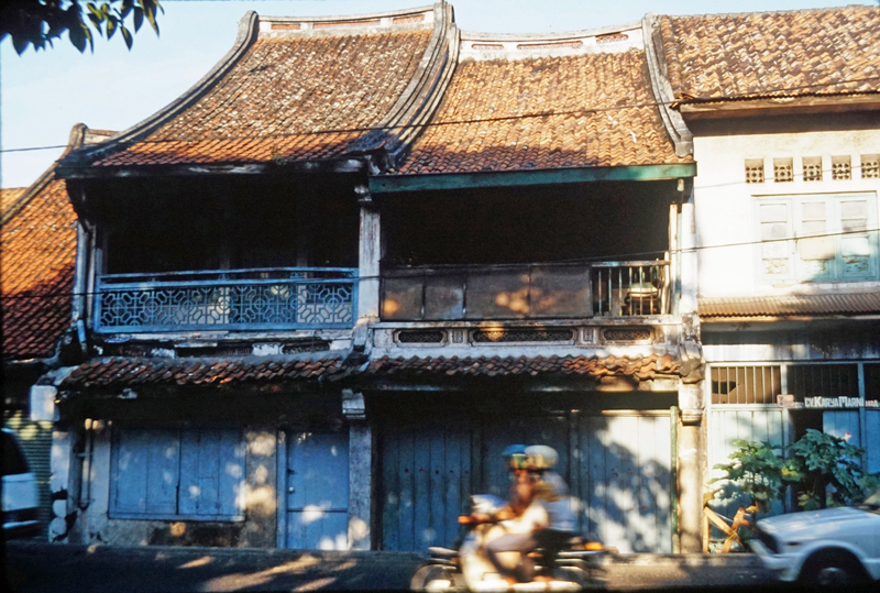 Shophouses along Jalan Kramat Raya, Senen, Jakarta, 1991.